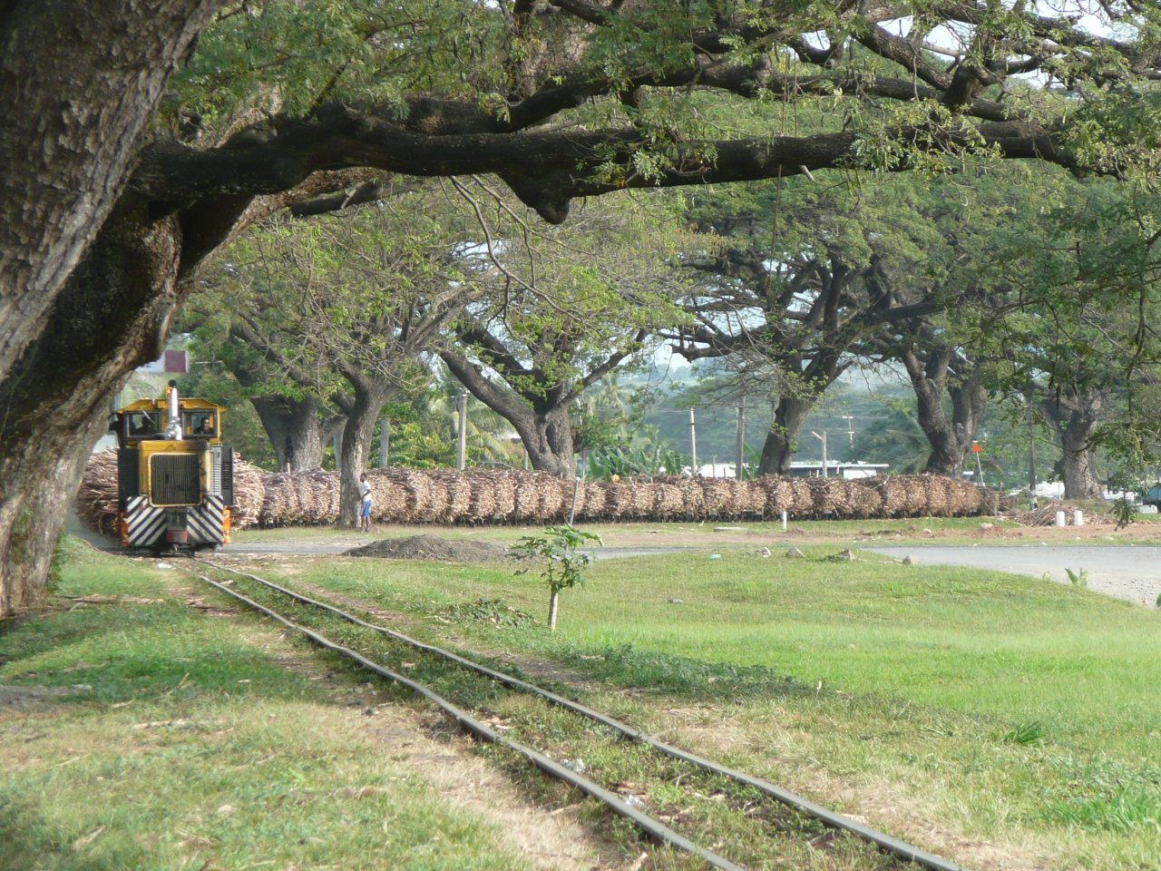 Fiji Sugar Corporation loco no 11 entering Lautoka with a train of c.45 loaded cane wagons